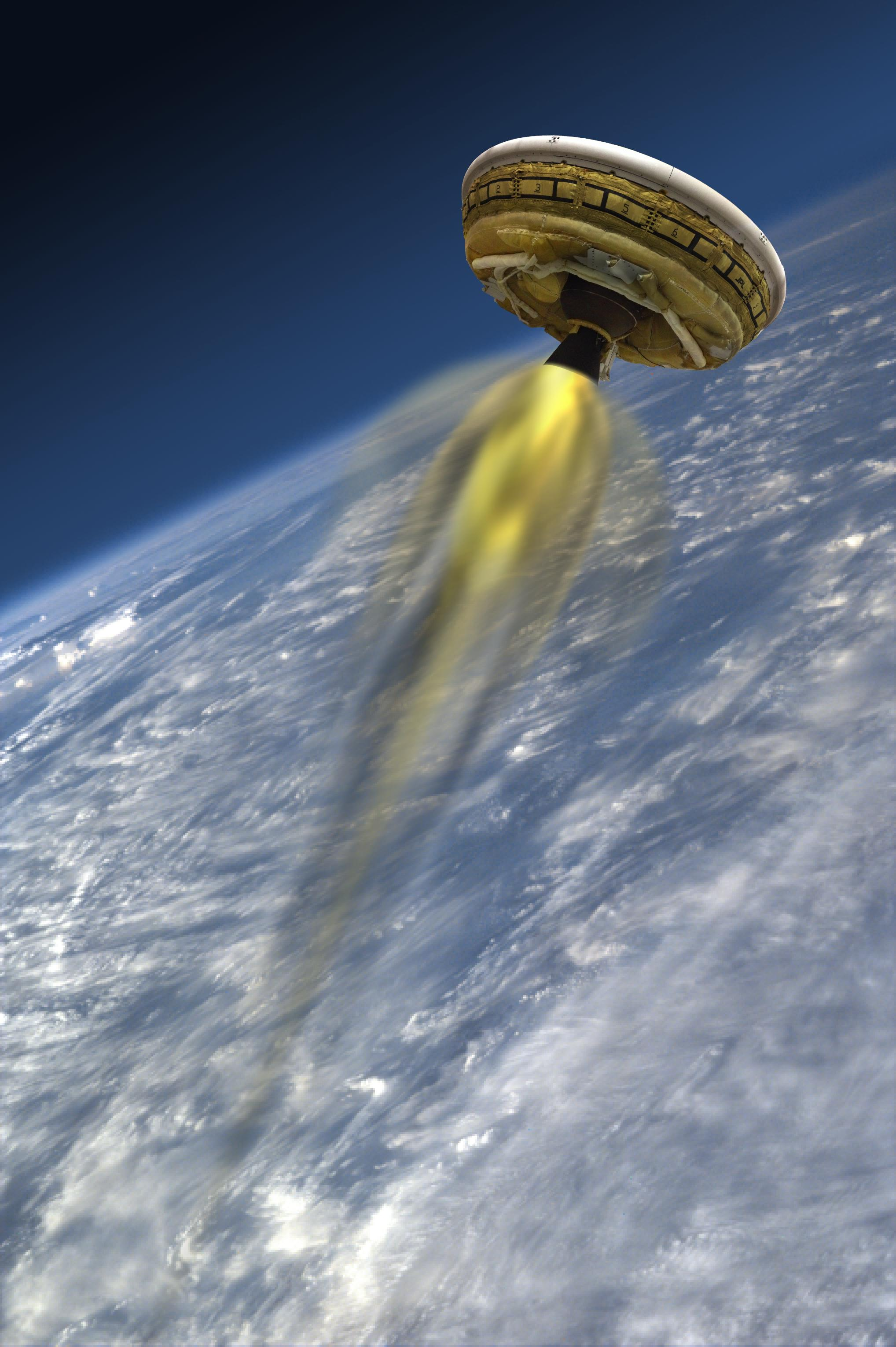 This artist's concept shows the test vehicle for NASA's Low-Density Supersonic Decelerator (LDSD), designed to test landing technologies for future Mars missions. A balloon will lift the vehicle to high altitudes, where a rocket will take it even higher, to the top of the stratosphere, at several times the speed of sound. The Low-Density Supersonic Decelerator Project is managed by JPL for NASA's Space Technology Mission Directorate in Washington.